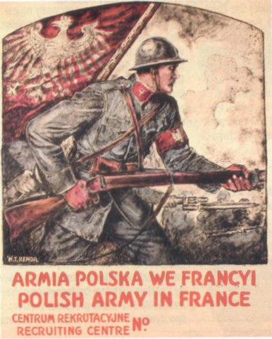 Polish army in France WW1 recruitment poster